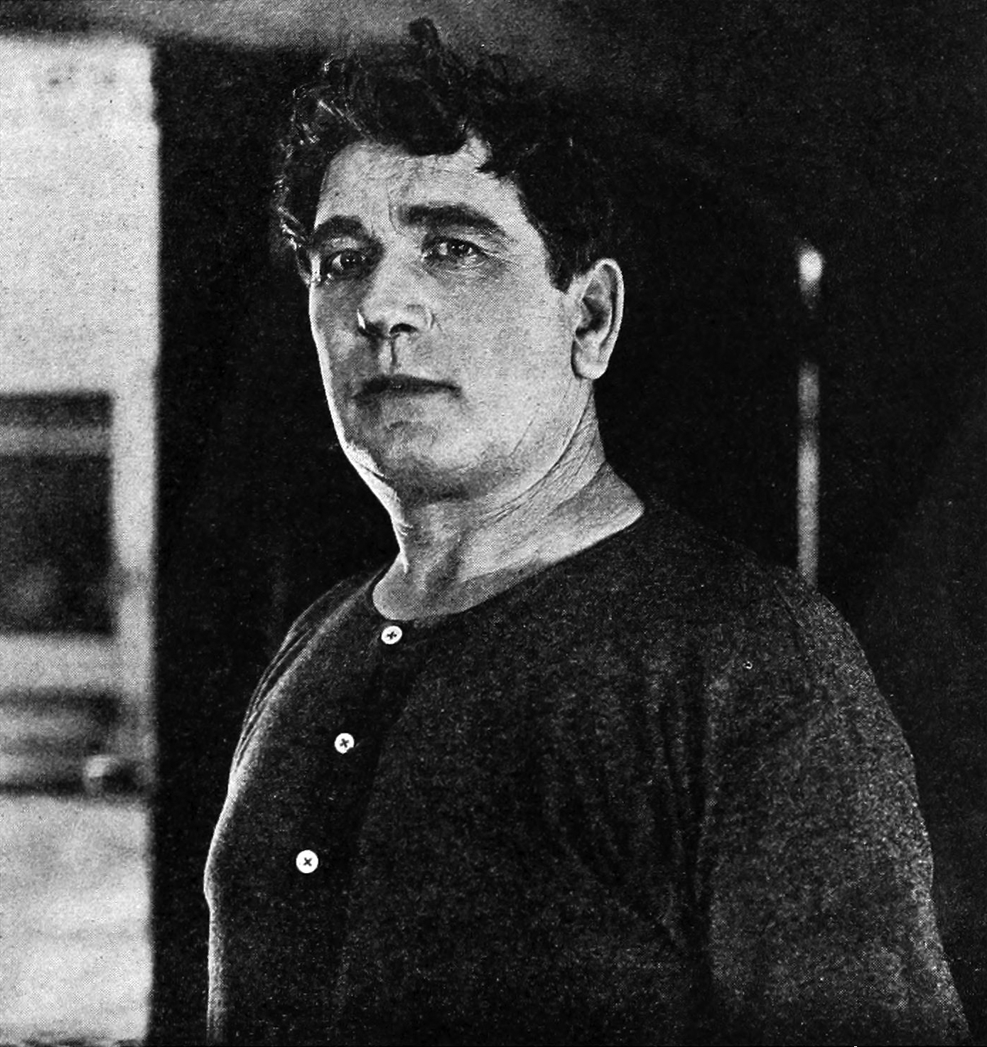 William Walling in The Village Blacksmith (1922), directed by John Ford